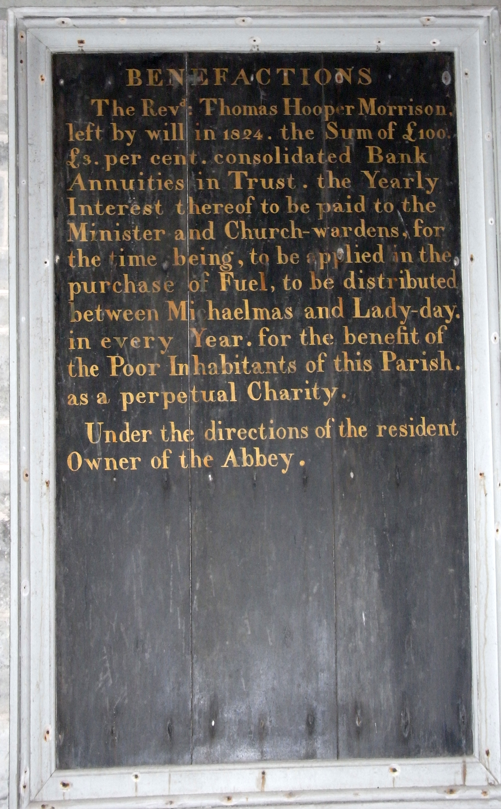 Inscribed board in Tower of St Nectan's Church, Hartland, Devon, publicly proclaiming the benefaction of Rev. Thomas Hooper Morrison (1768-1824), of Yeo Vale, Alwington, Devon, who inherited Hartland Abbey from his uncle Paul II Orchard (1739-1812), whose benefactions are similarly recorded on an adjacent board. Inscribed: "Benefactions. The Revd Thomas Hooper Morrison left by will in 1824 the sum of £100 £3 per cent. Consolidated Bank Annuities in trust, the yearly interest thereof to be paid to the Minister and Church-Wardens for the time being to be applied in the purchase of fuel to be distributed between Michaelmas and Lady Day in every year for the benefit of the poor inhabitants of this parish as a perpetual charity. Under the directions of the resident owner of the Abbey"